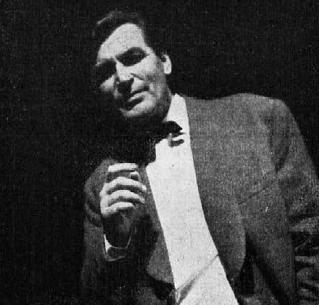 Bert Sotlar (1921-1992), Slovene actor